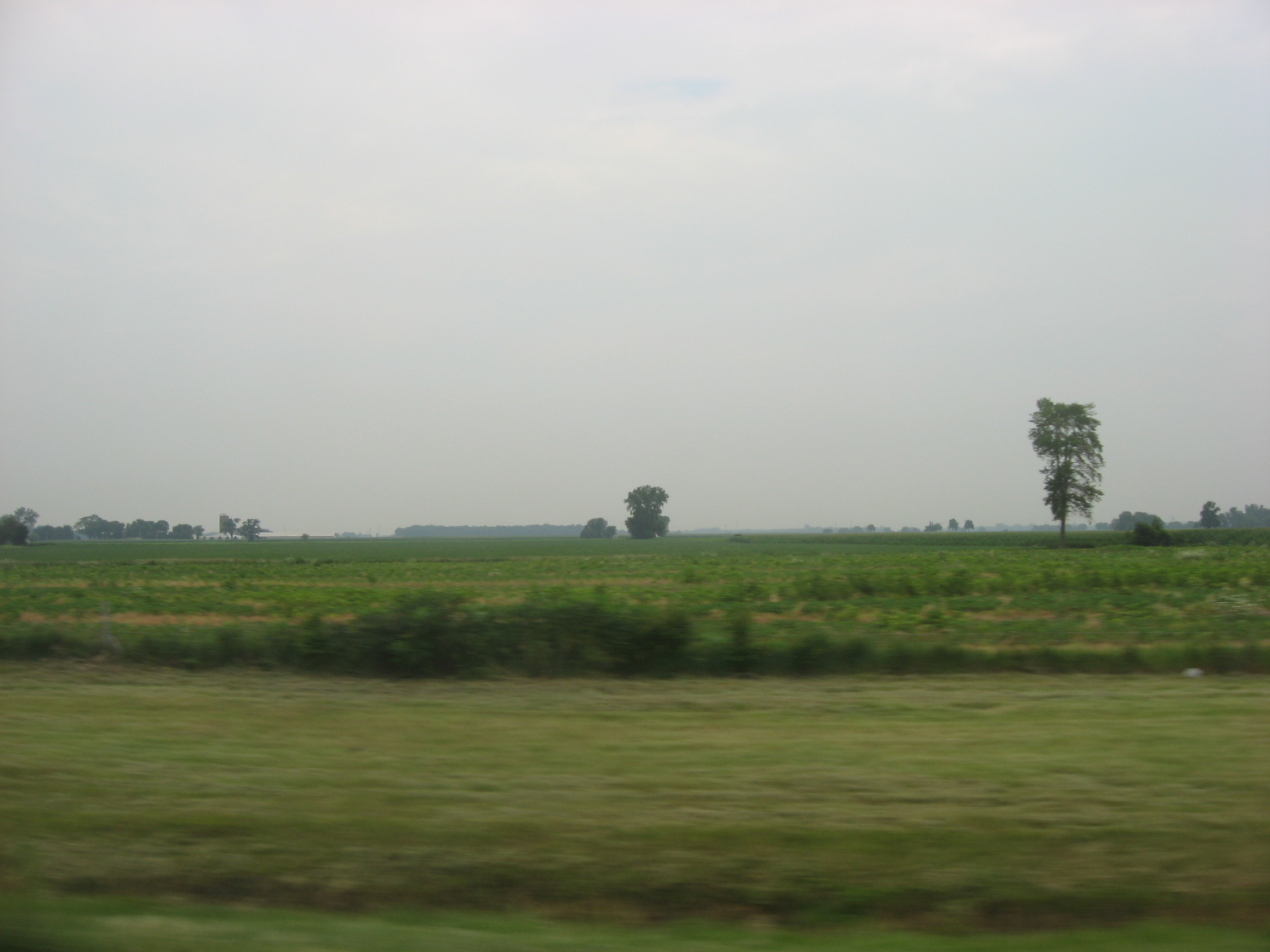 Typical flat countryside in southern Townsend Township, Sandusky County, Ohio, United States. Picture taken looking northward from the concurrent Interstates 80/90 (the Ohio Turnpike).